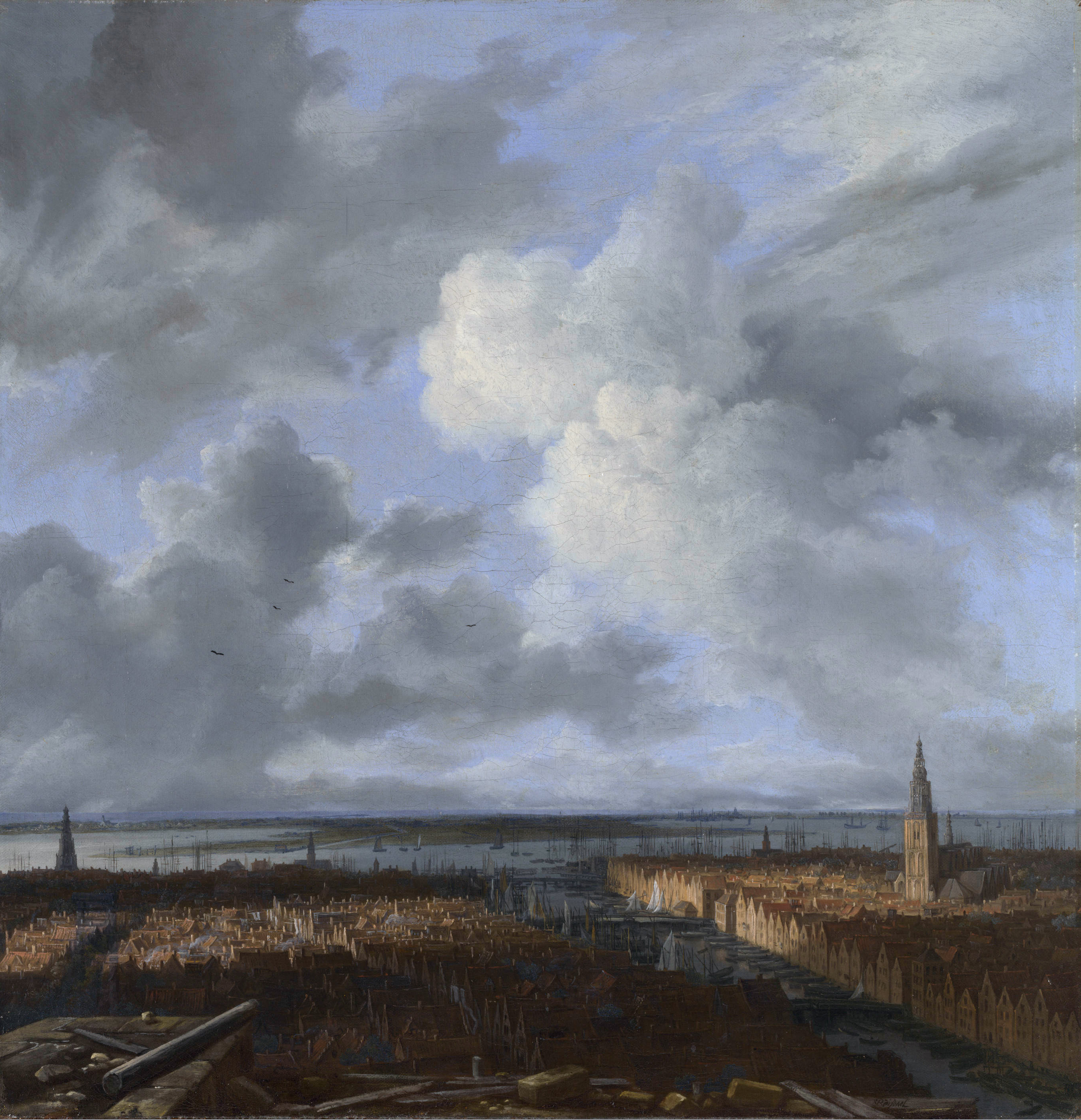 A View of Amsterdam looking towards the IJ from the scaffolding surrounding the tower of Amsterdam's new Town Hall